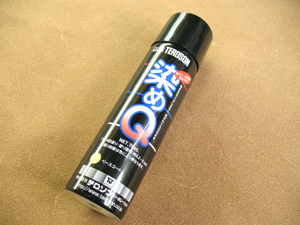 Somay-Q